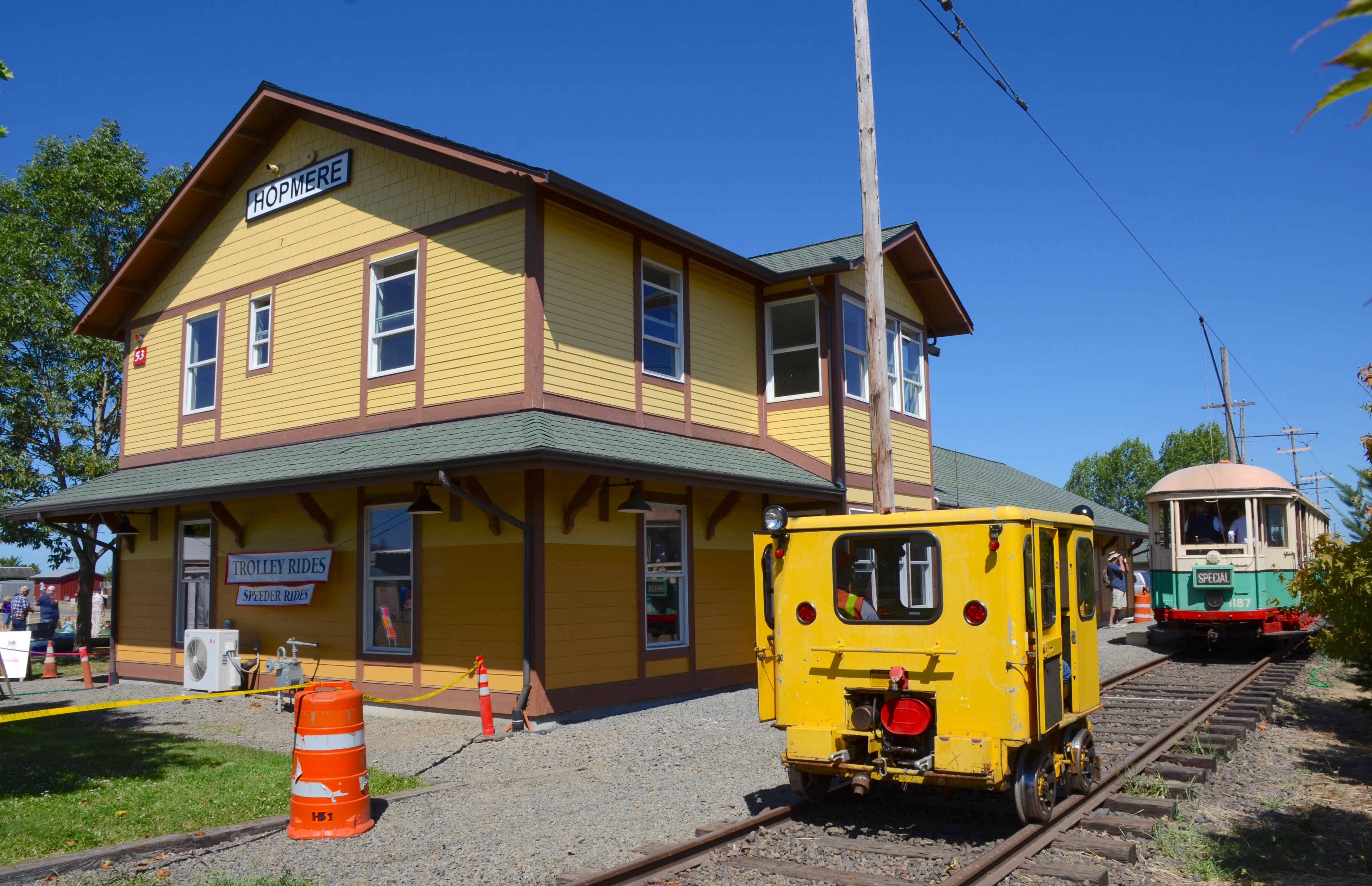 Hopmere Station, the interpretative center of the Oregon Electric Railway Museum (Brooks, Oregon), with a speeder in the foreground. Also visible, in the background, is Sydney car 1187.